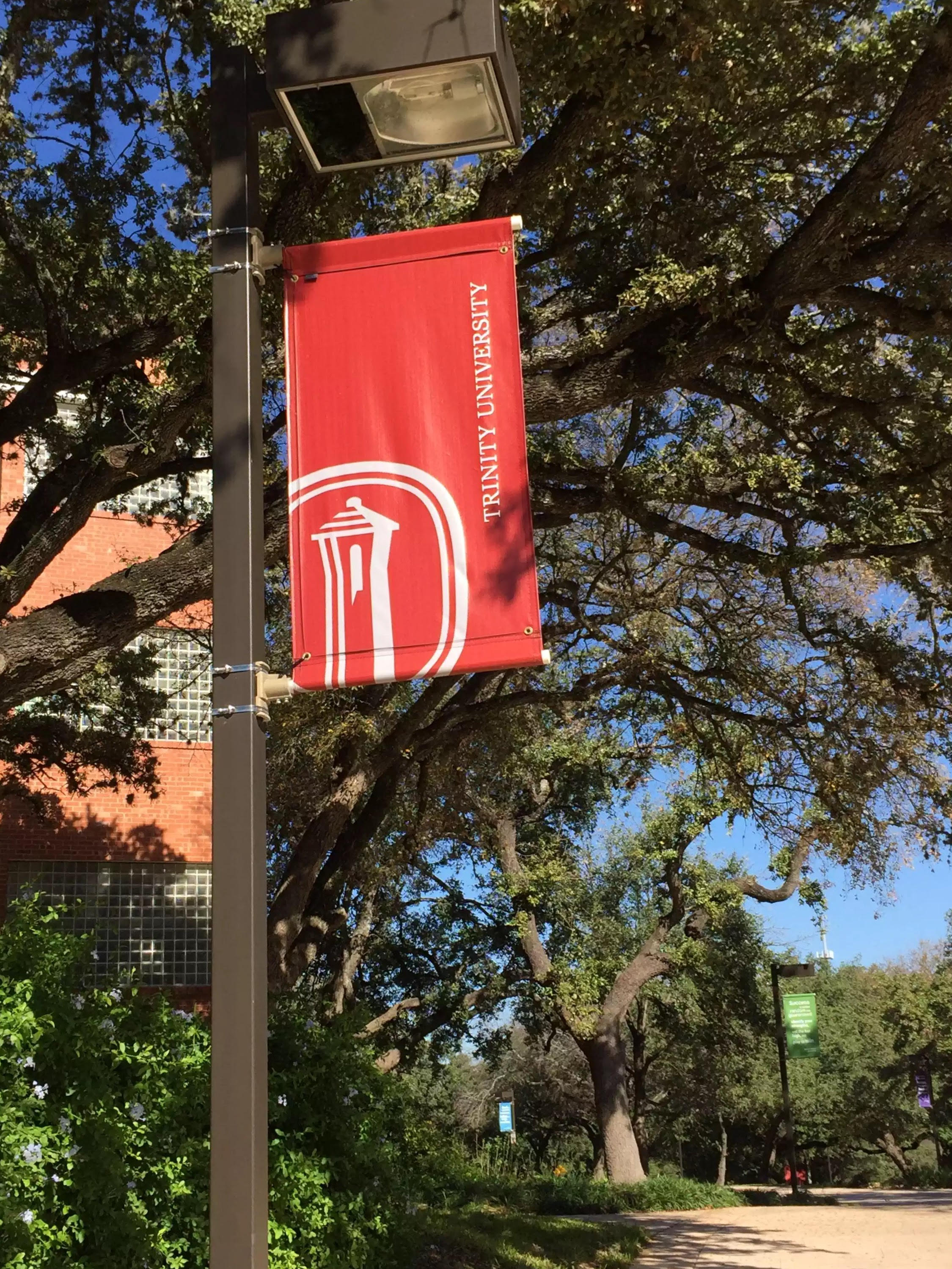 Trinity University Banner